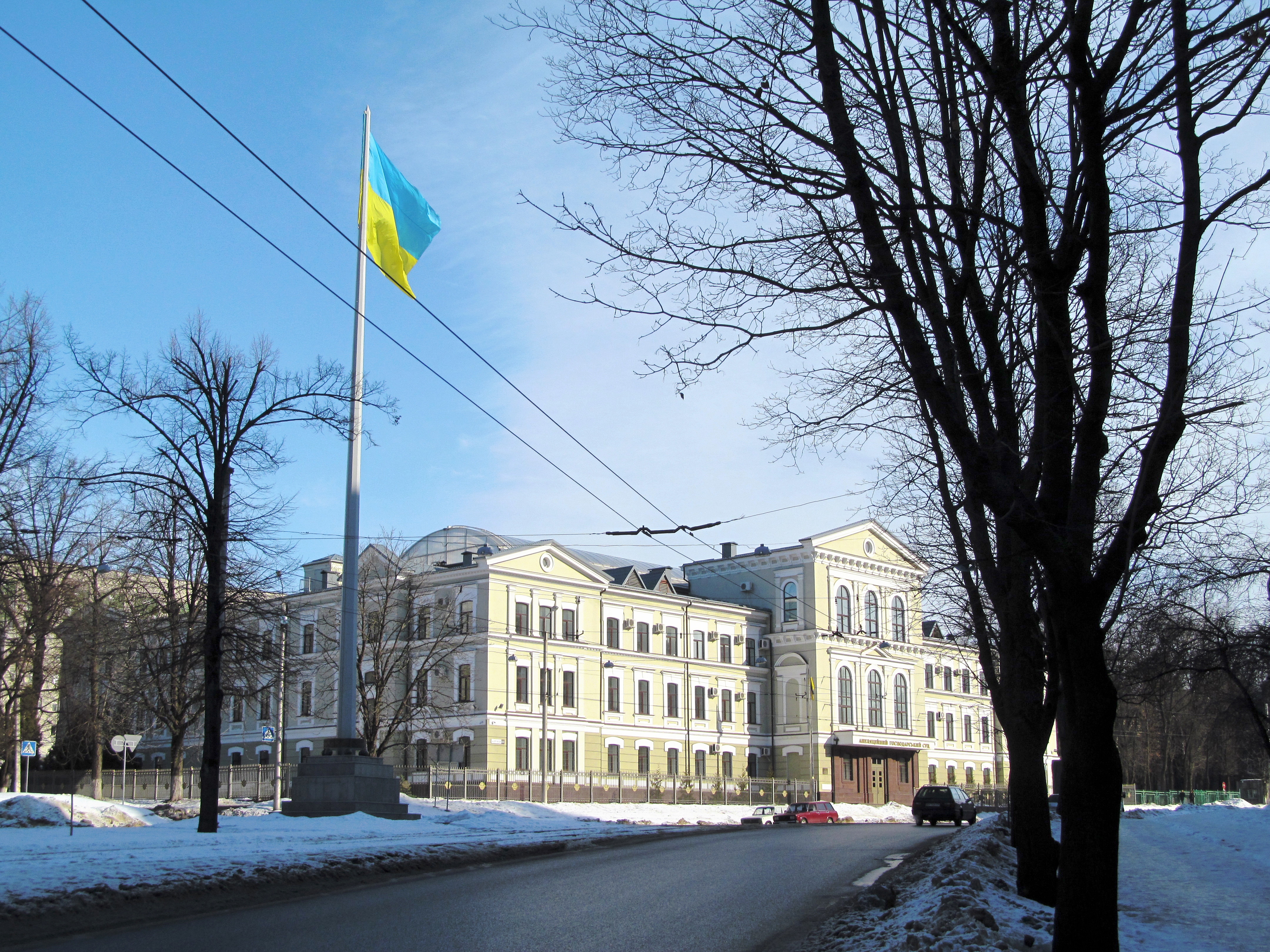 Pravdy Avenue. Flag of Ukraine